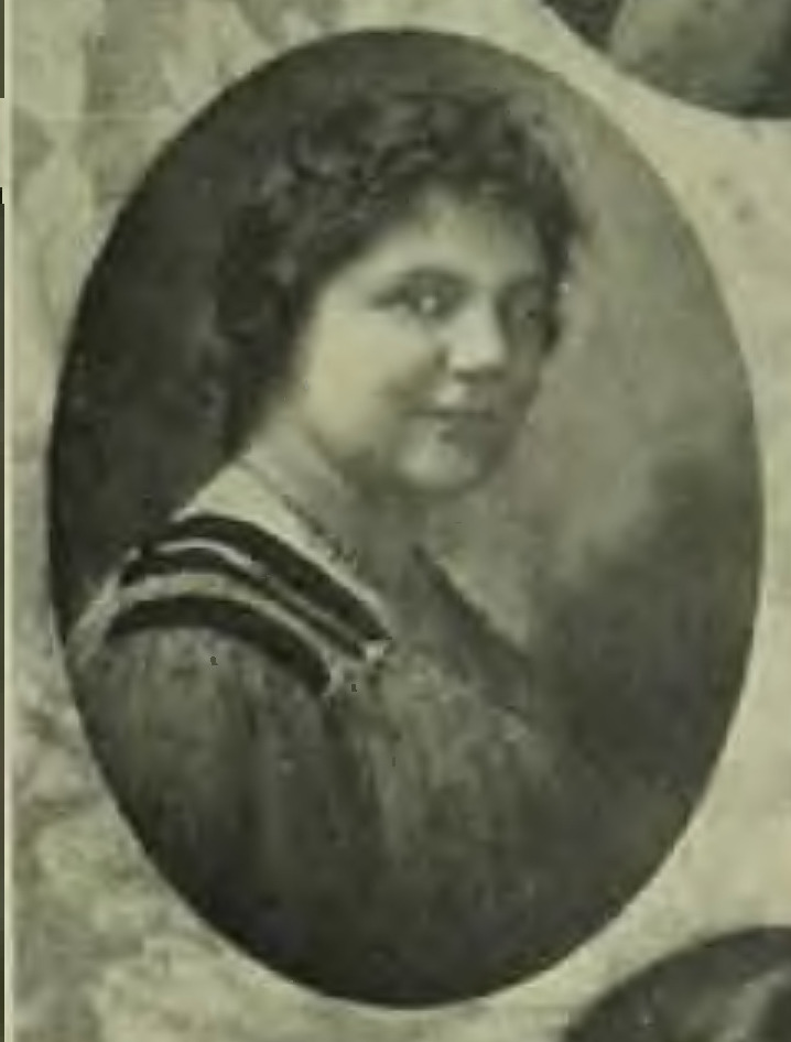 Yearbook of The George Washington University, 1916